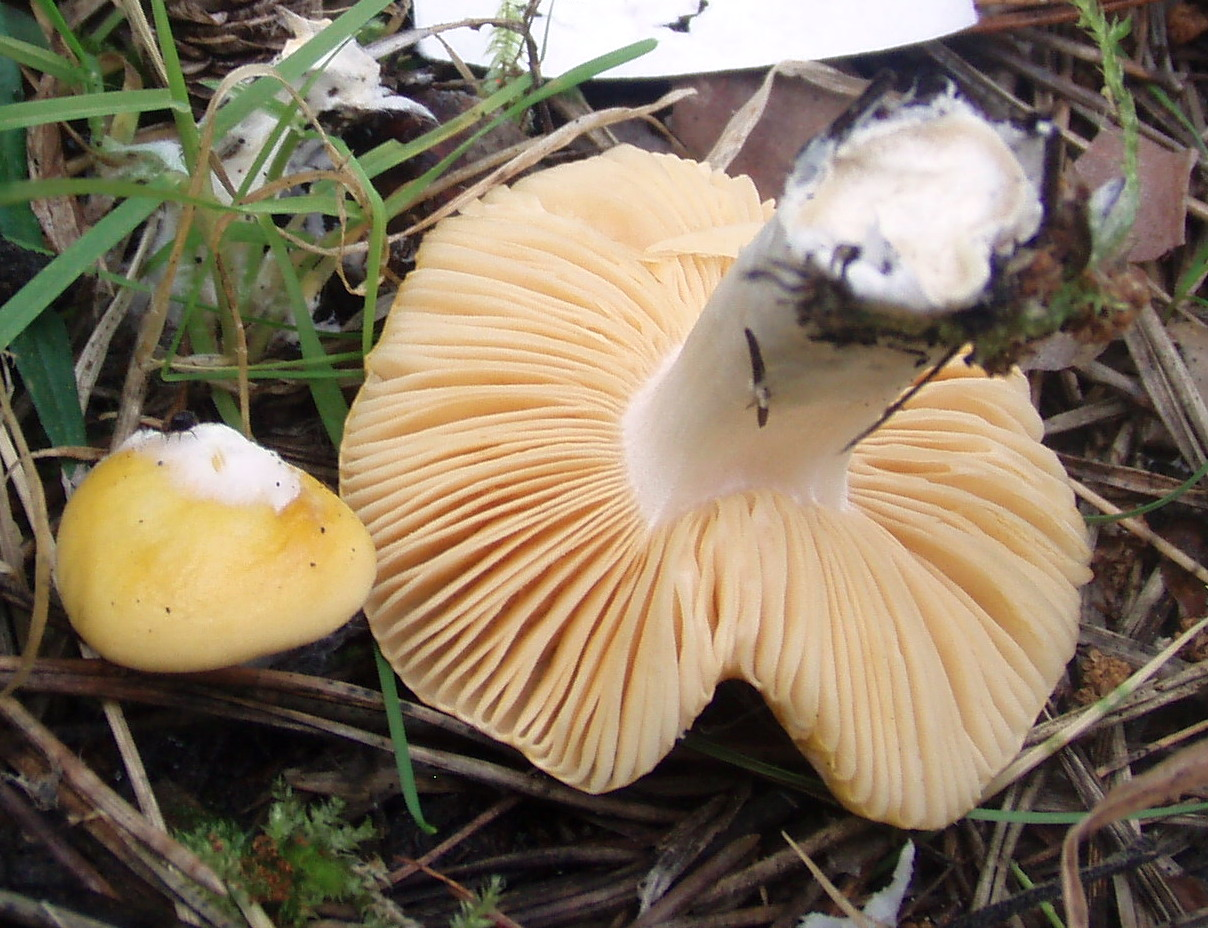 Russula acetolens Rauschert Image location: Atamanovo, Krasnoyarsk Krai, Russia cap 5cm, yellow, faintly shine in center; stem 8 × 1 cm, white; gills ochreous; taste mild; smell faint, indistinct. coll. number BAS-Kr17, Kr19, Kr-23 Recognized by sight Used references: Funga Nordica (2008); Genere Russula in Europa, Tomo secondo, p. 1376 For more information about this, see the observation page at Mushroom Observer.